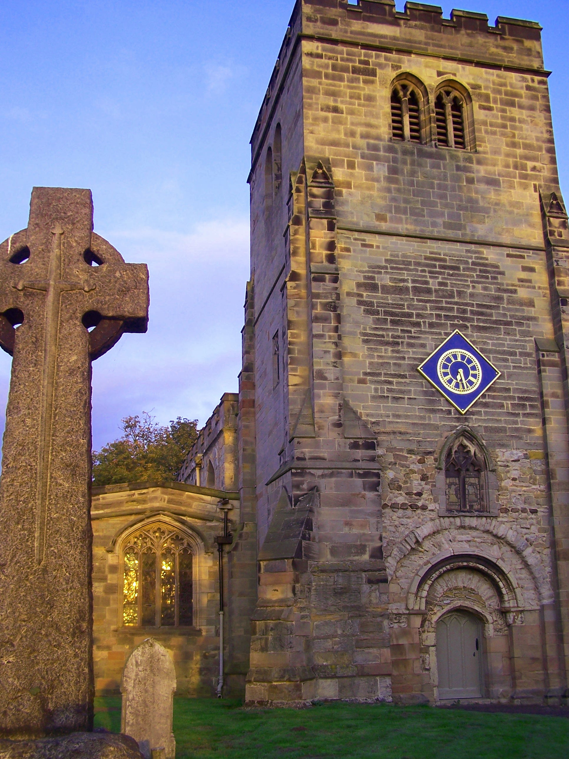 Parish church of St Mary the Virgin, Plumtree, Nottinghamshire, seen from the west